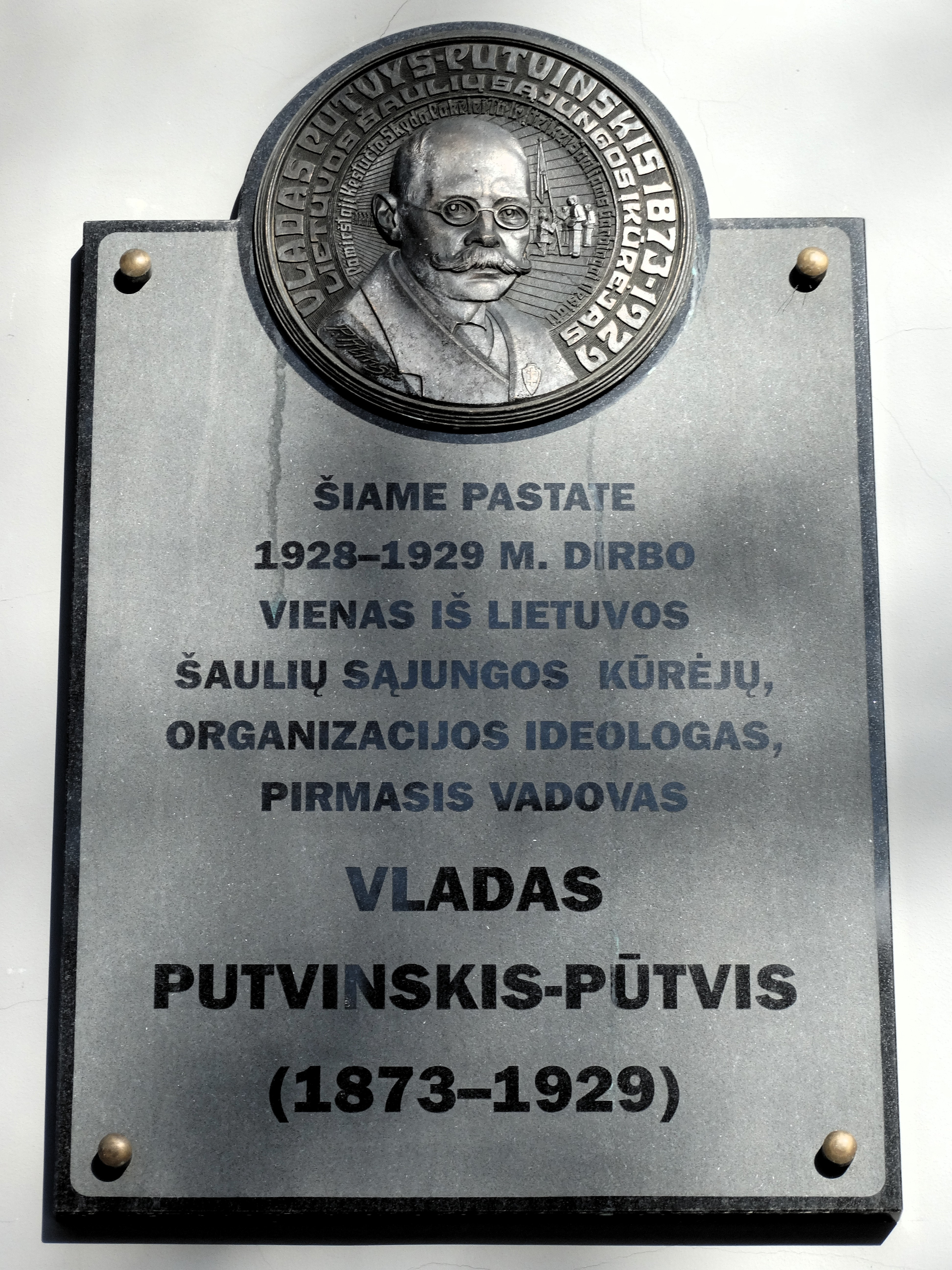 Memorial plaque to Vladas Putvinskis, Laisvės al.34, Kaunas, Lithuania